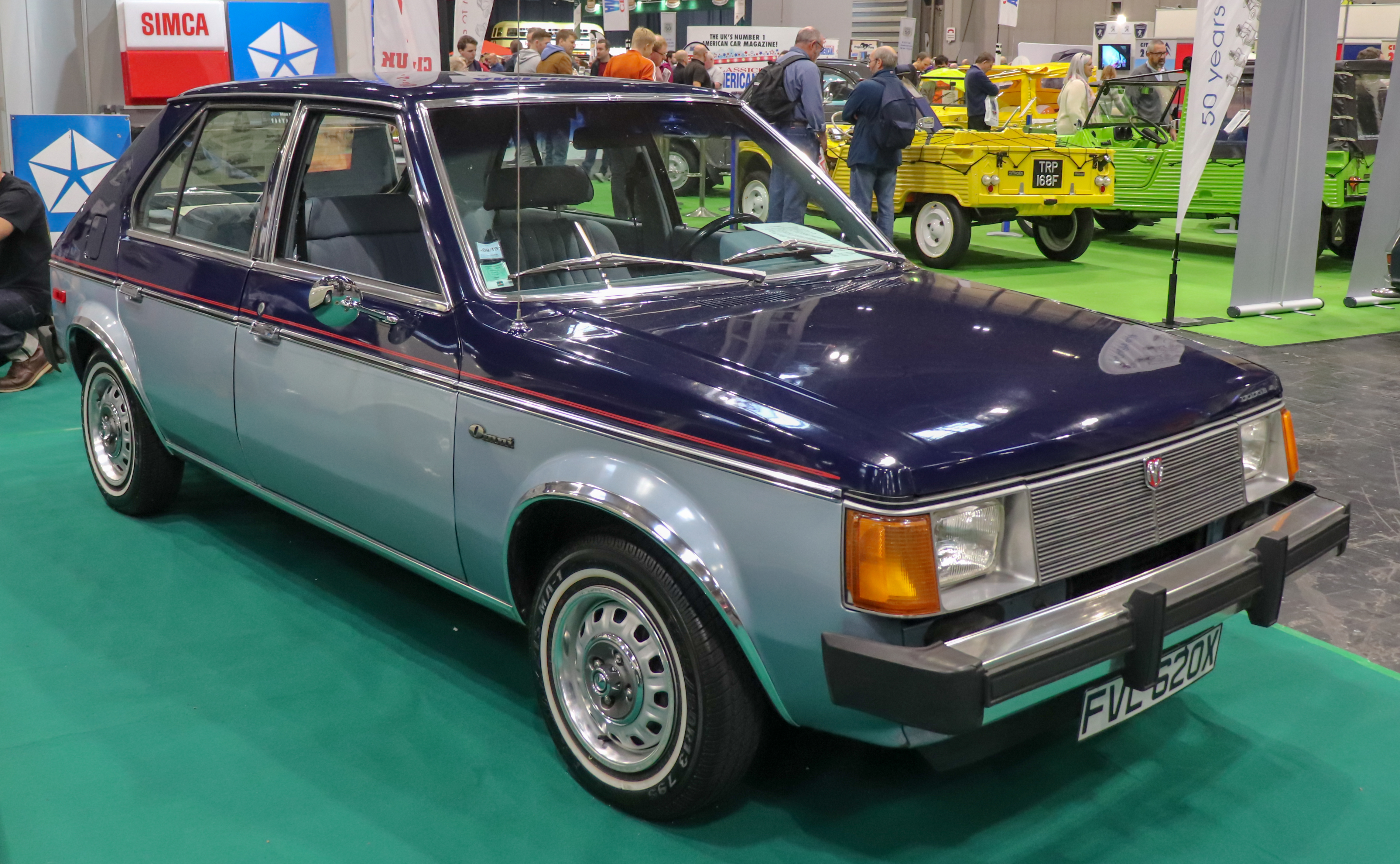 1981 Dodge Omni 1.7 Taken at the NEC Classic Motor Show 2018